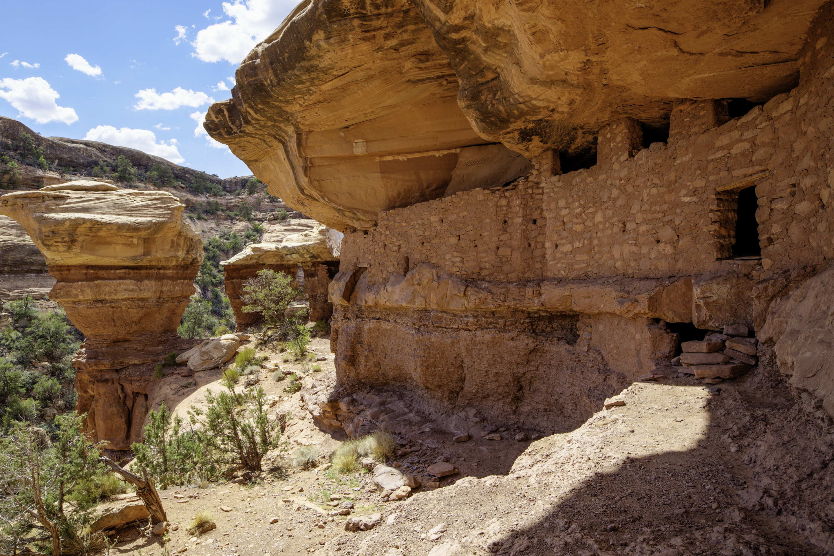 Moon Shot in Cedar Mesa in Bears Ears National Monument